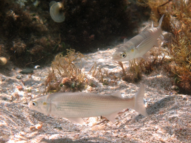 Liza aurata photographed in Corsican waters by Roberto Pillon.